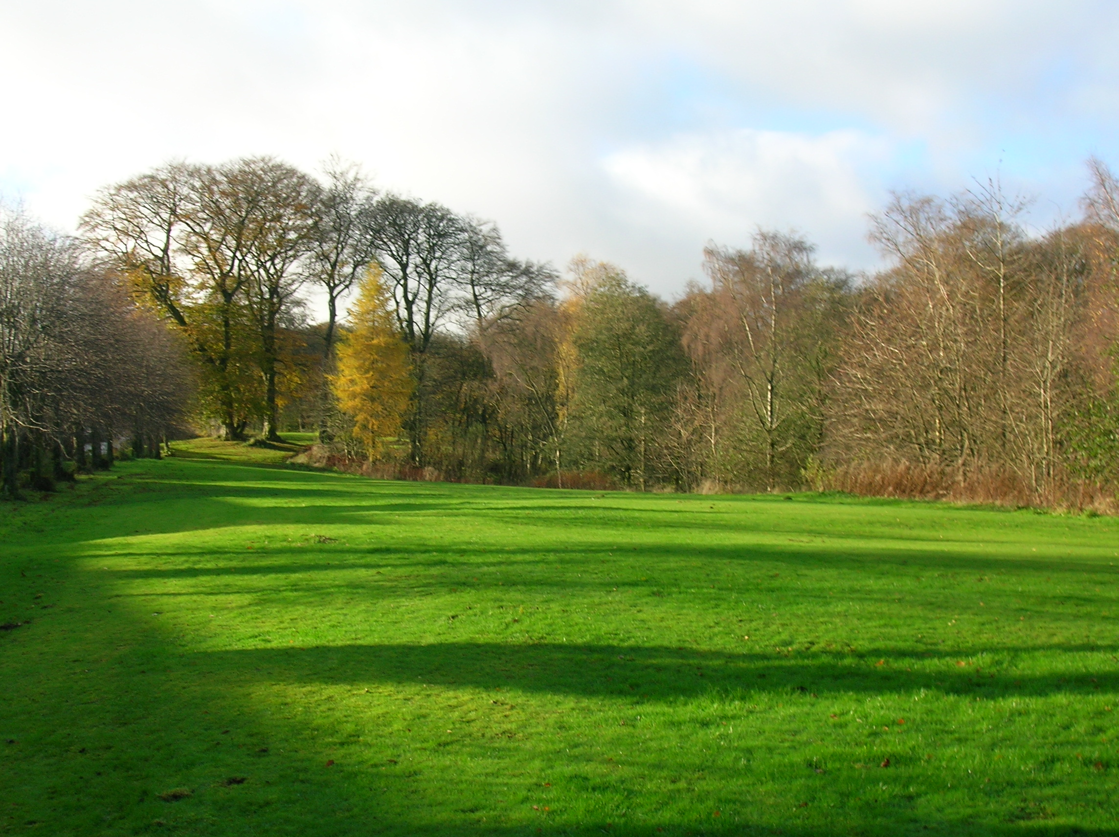 The Orry or Eaglesham Green, East Renfrewshire, Scotland.